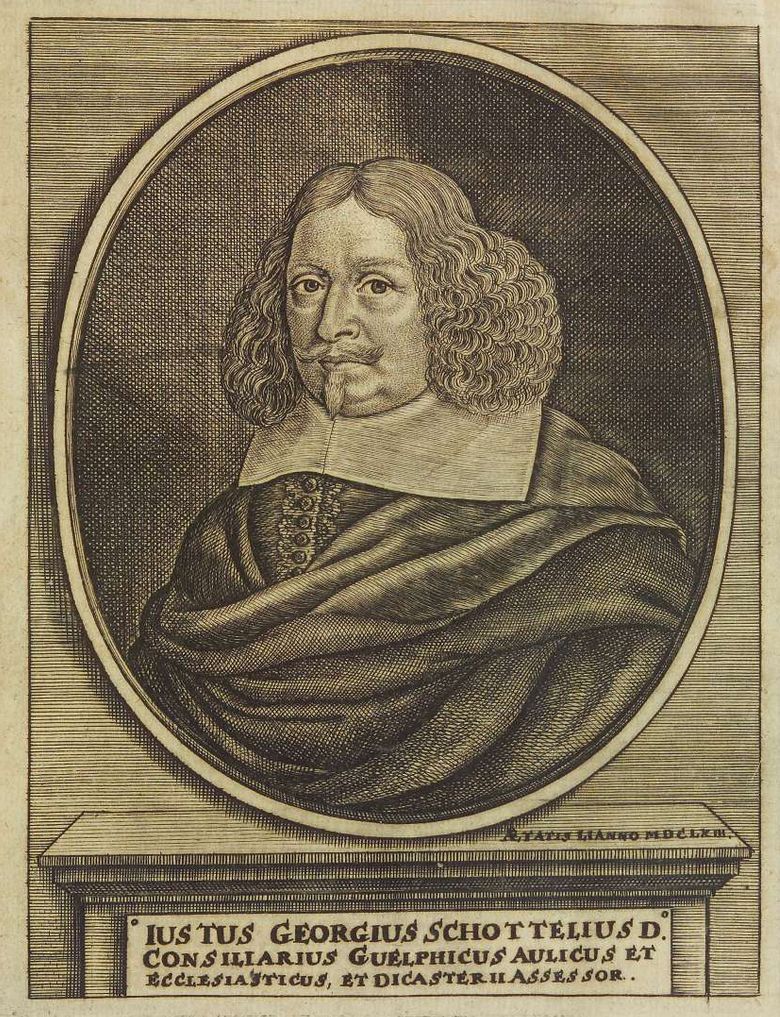 Justus Georgius Schottelius. Frontispiece of Ausführliche Arbeit Von der Teutschen HaubtSprache (1663)